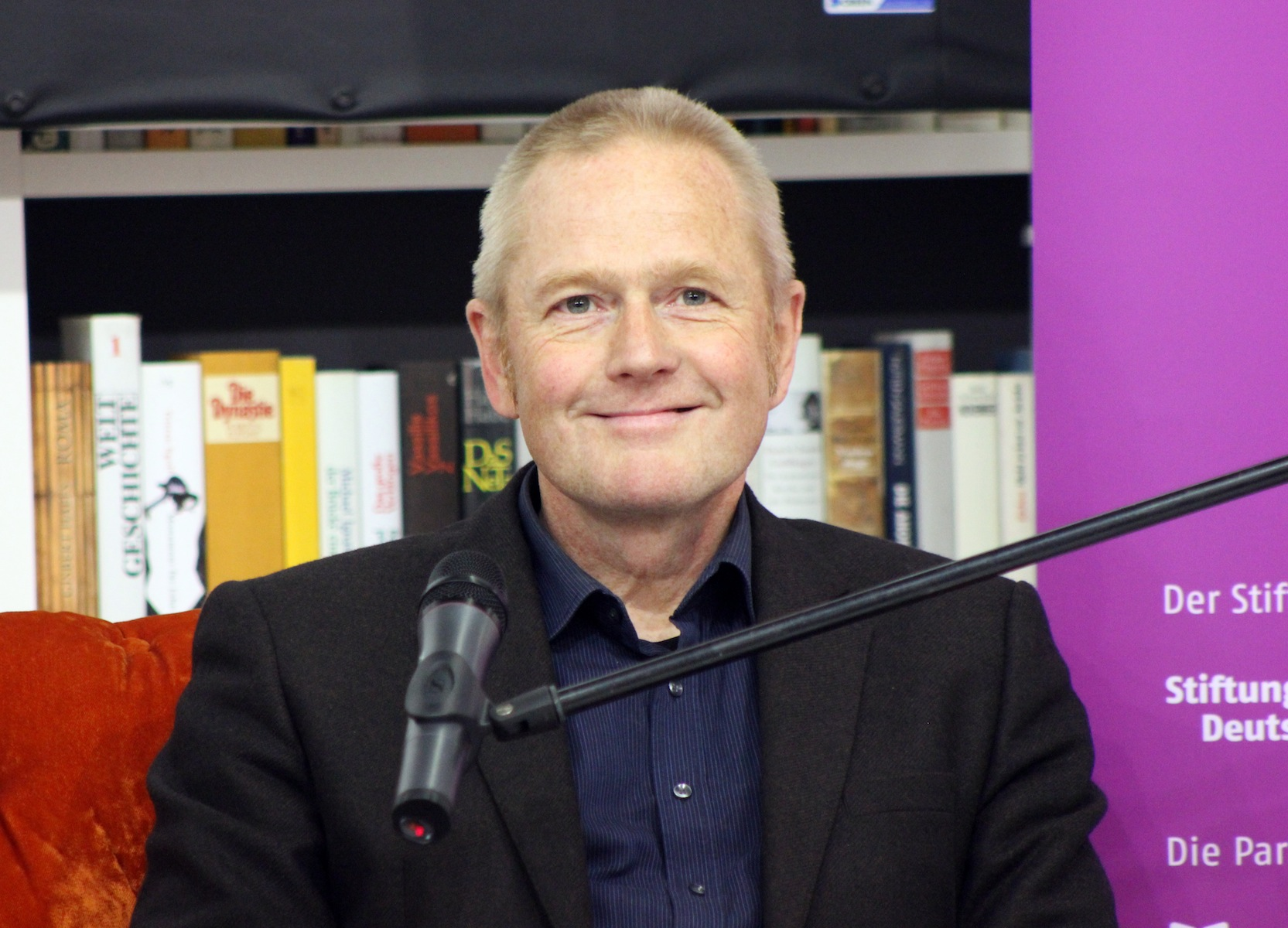 Olaf Kühl, Frankfurt Book Fair 2013